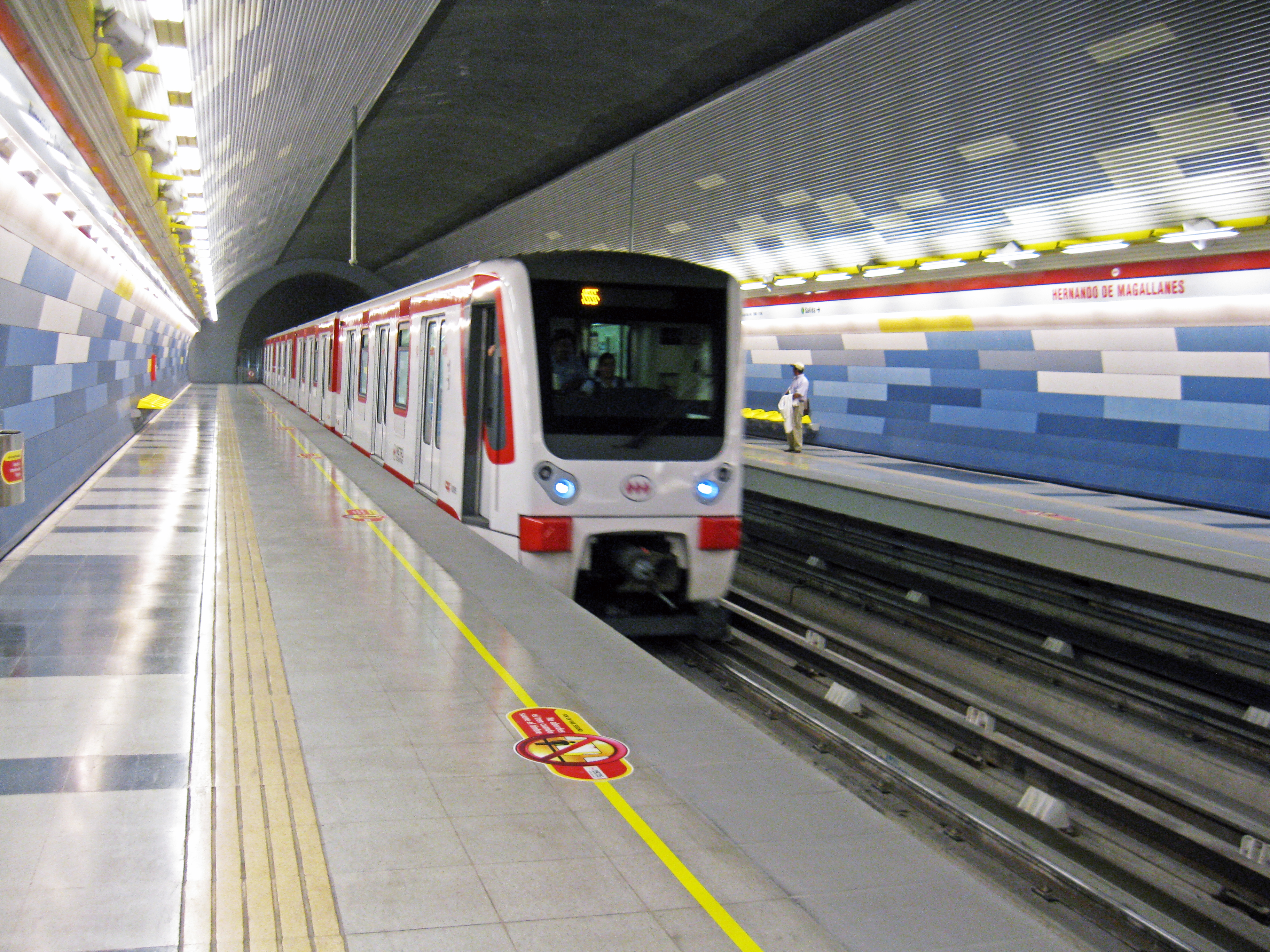 CAF train NS 2007in Hernando de Magallanes station, Santiago Metro.